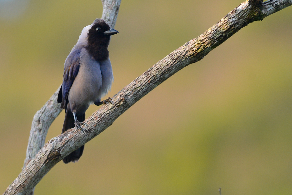 Violaceous Jay